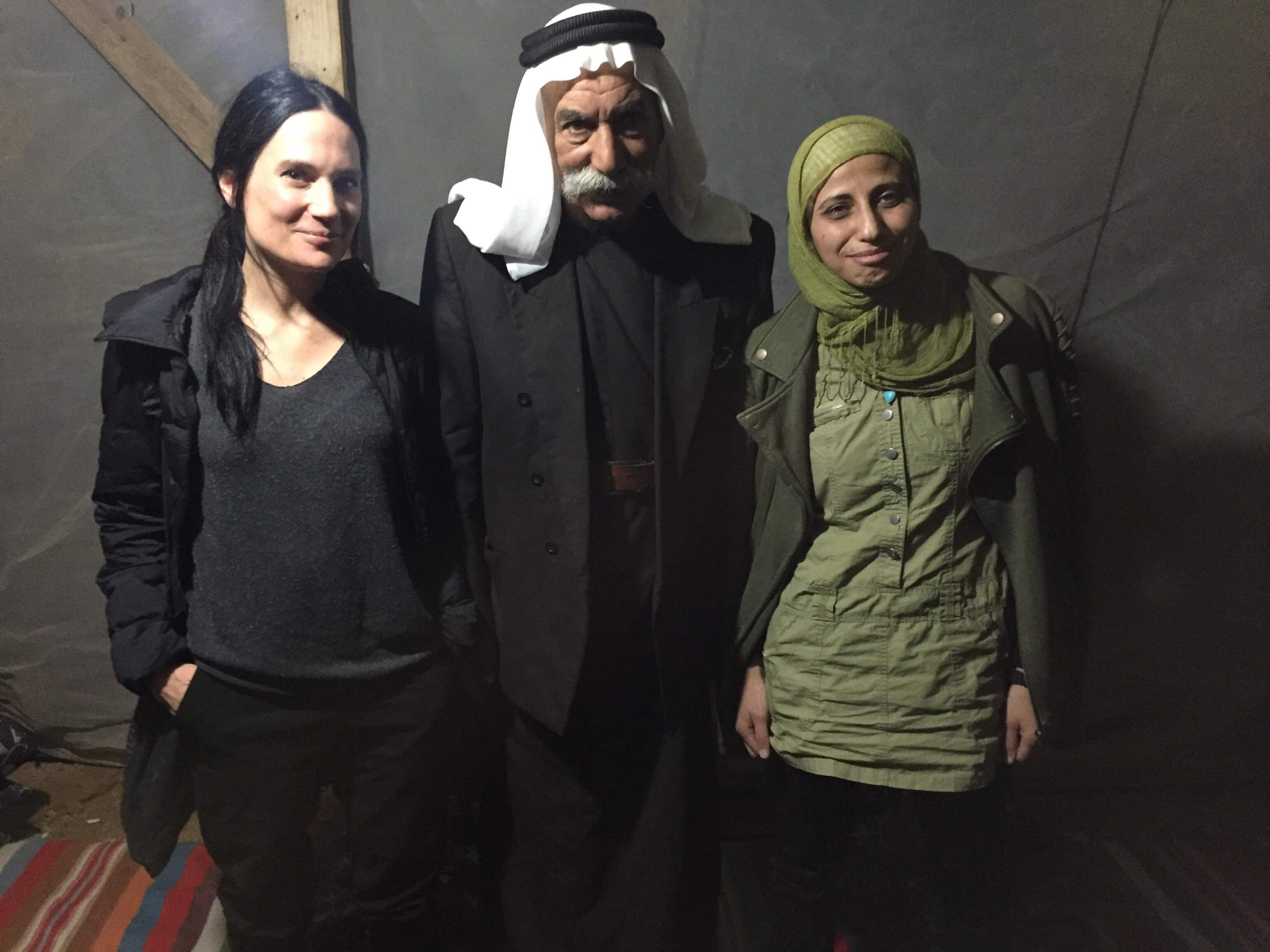 Israeli actress Einat Weizman and Palestinian poet Dareen tatour in solidarity visit to Al-Araqeeb, Novenber 2018